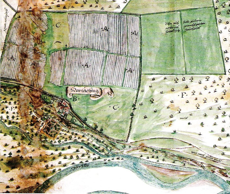 Map of Harlaching